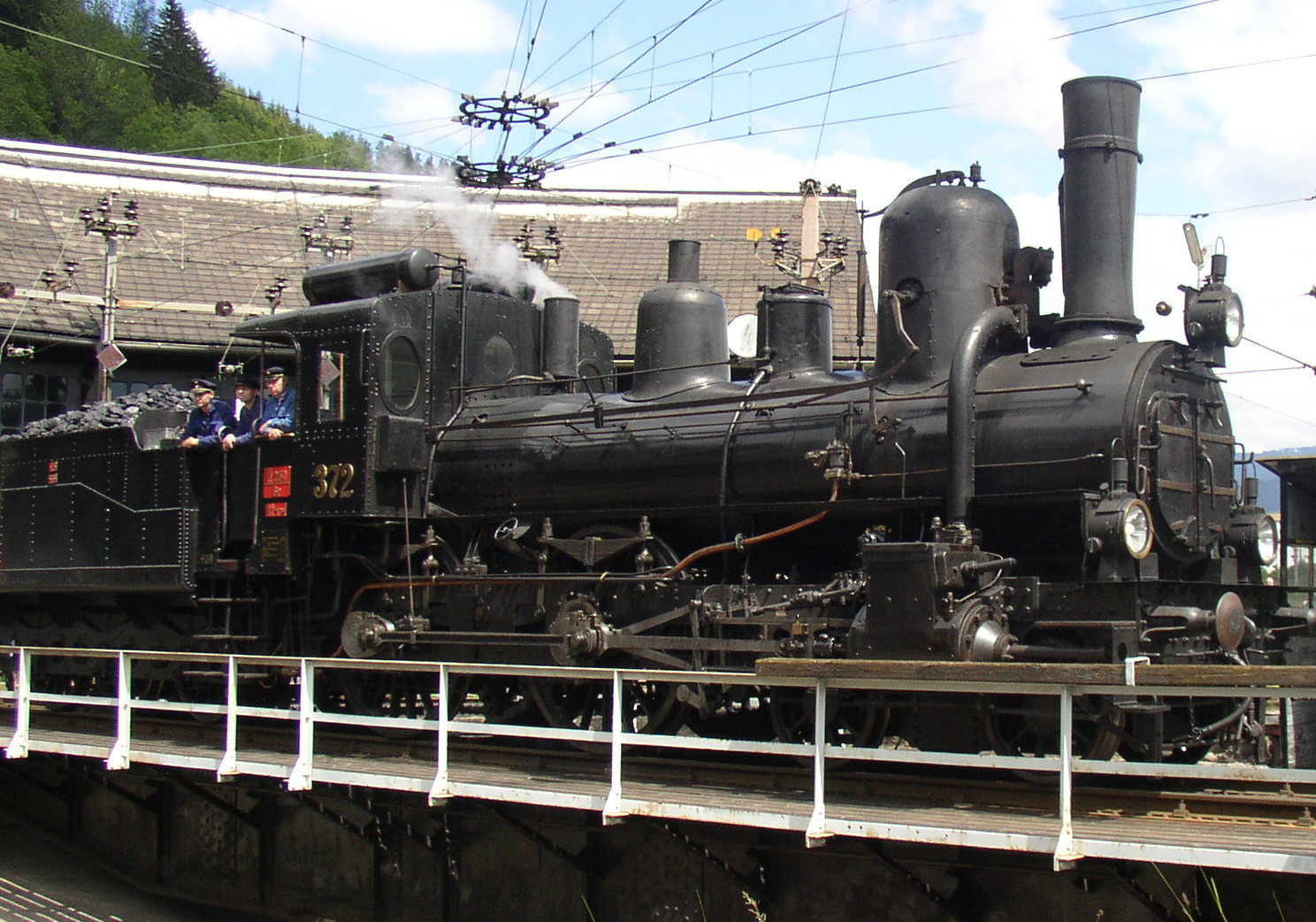 Steam locomotive no. 372, 17c series of Südbahngesellschaft (i.e. Austro-Hungarian Southern Railways) on the turntable in Mürzzuschlag station, Styria